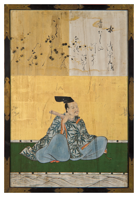 Sanjūrokkasen-gaku (Thirty-six Poetry Immortals framed picture) #32: Kiyohara no Motosuke